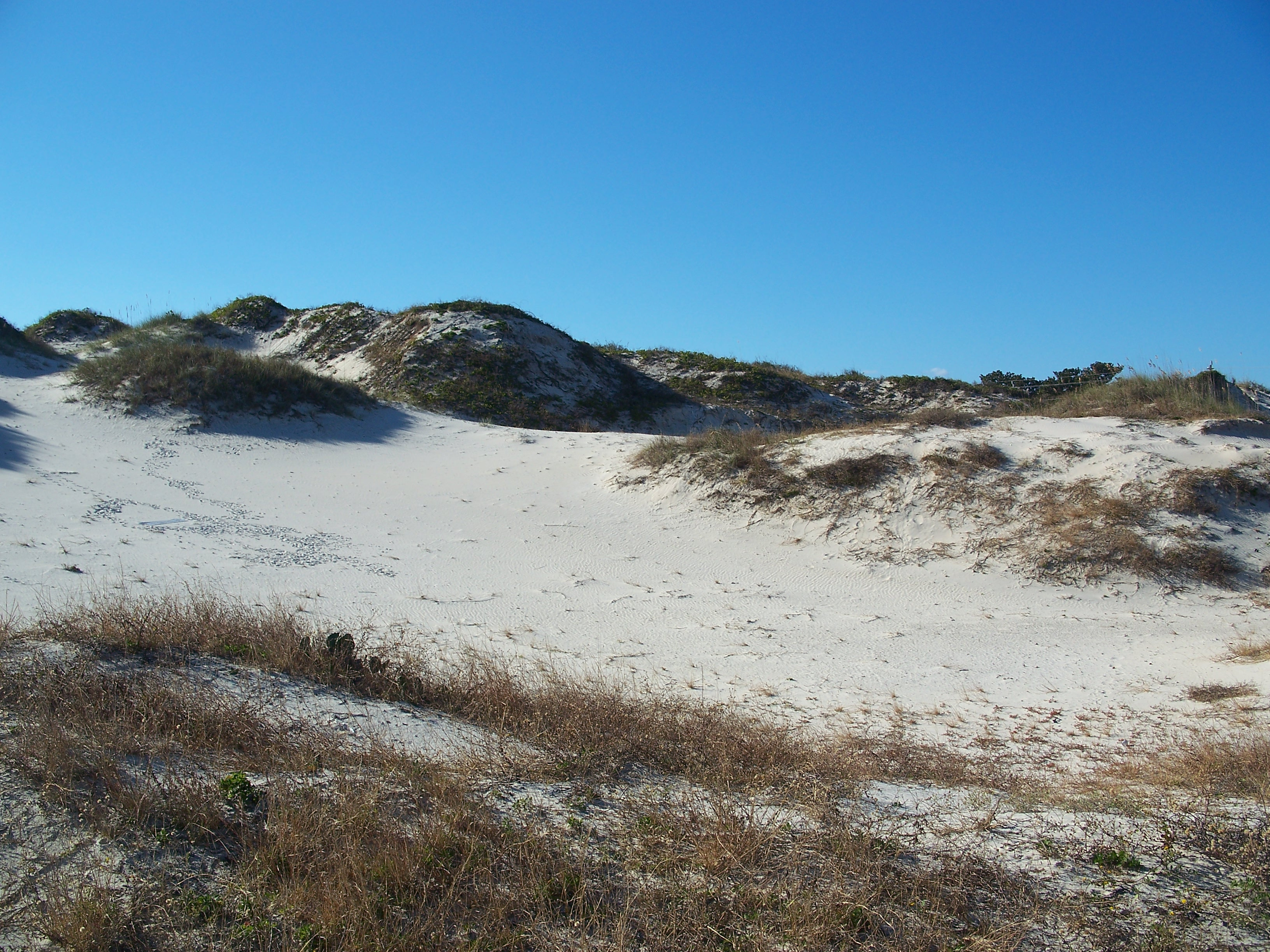 American Beach, Florida: NaNa, the tallest dune in Florida